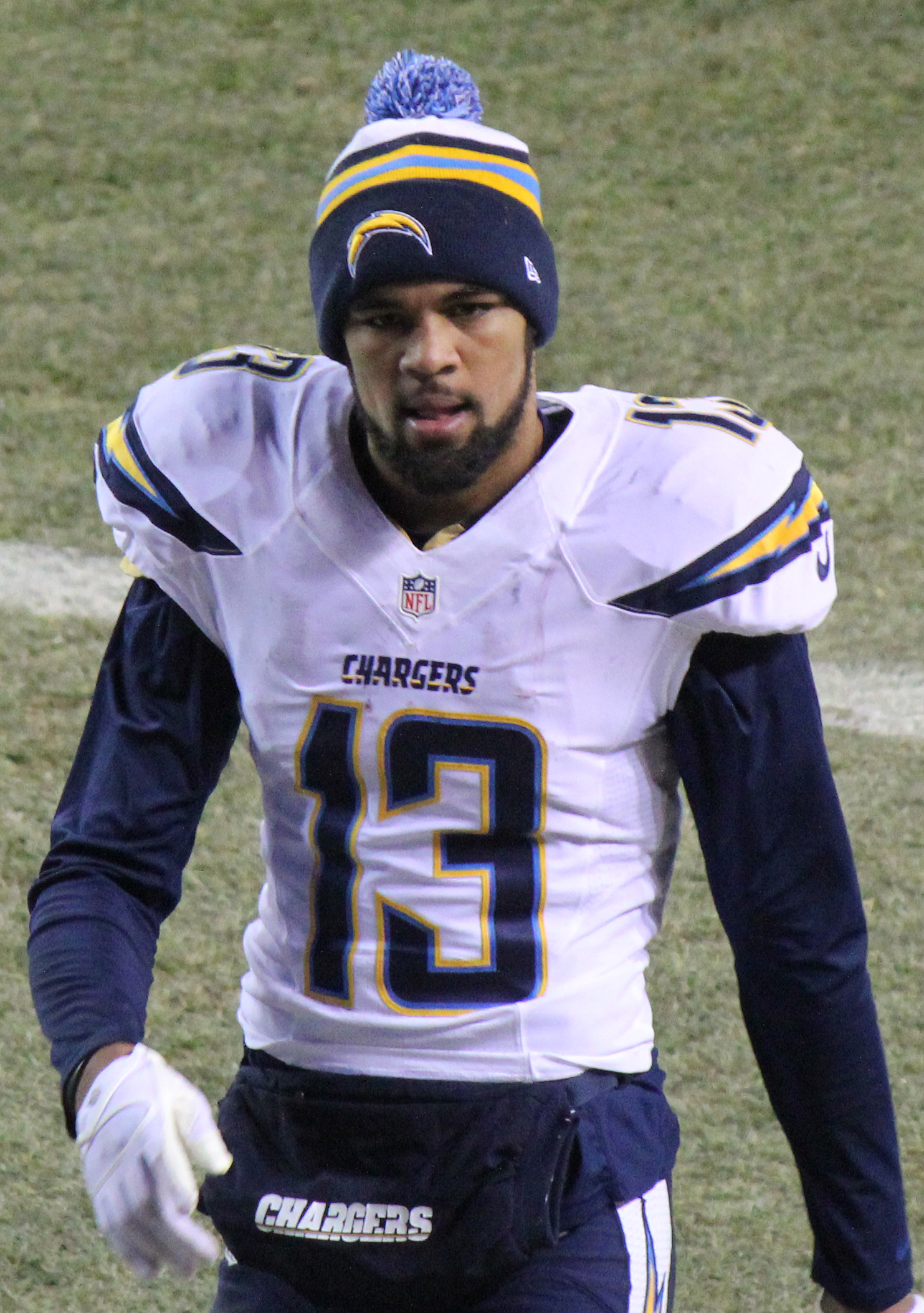 Keenan Allen, a player on the National Football League.